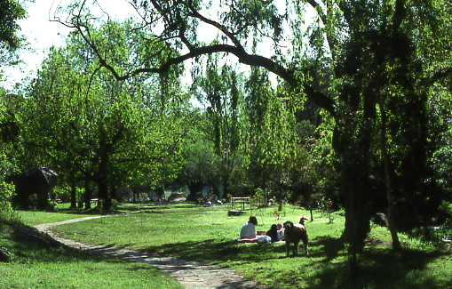 Cooper Park Bellevue Hill, New South Wales, Sydney.